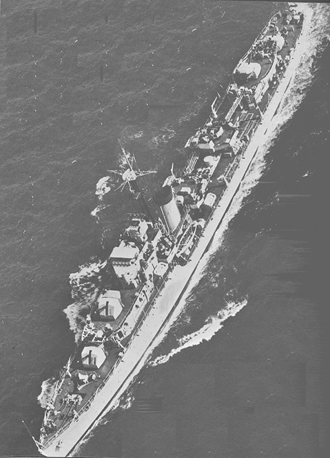 המשחתת אח"י אילת (ק-40) במבט מלמעלה